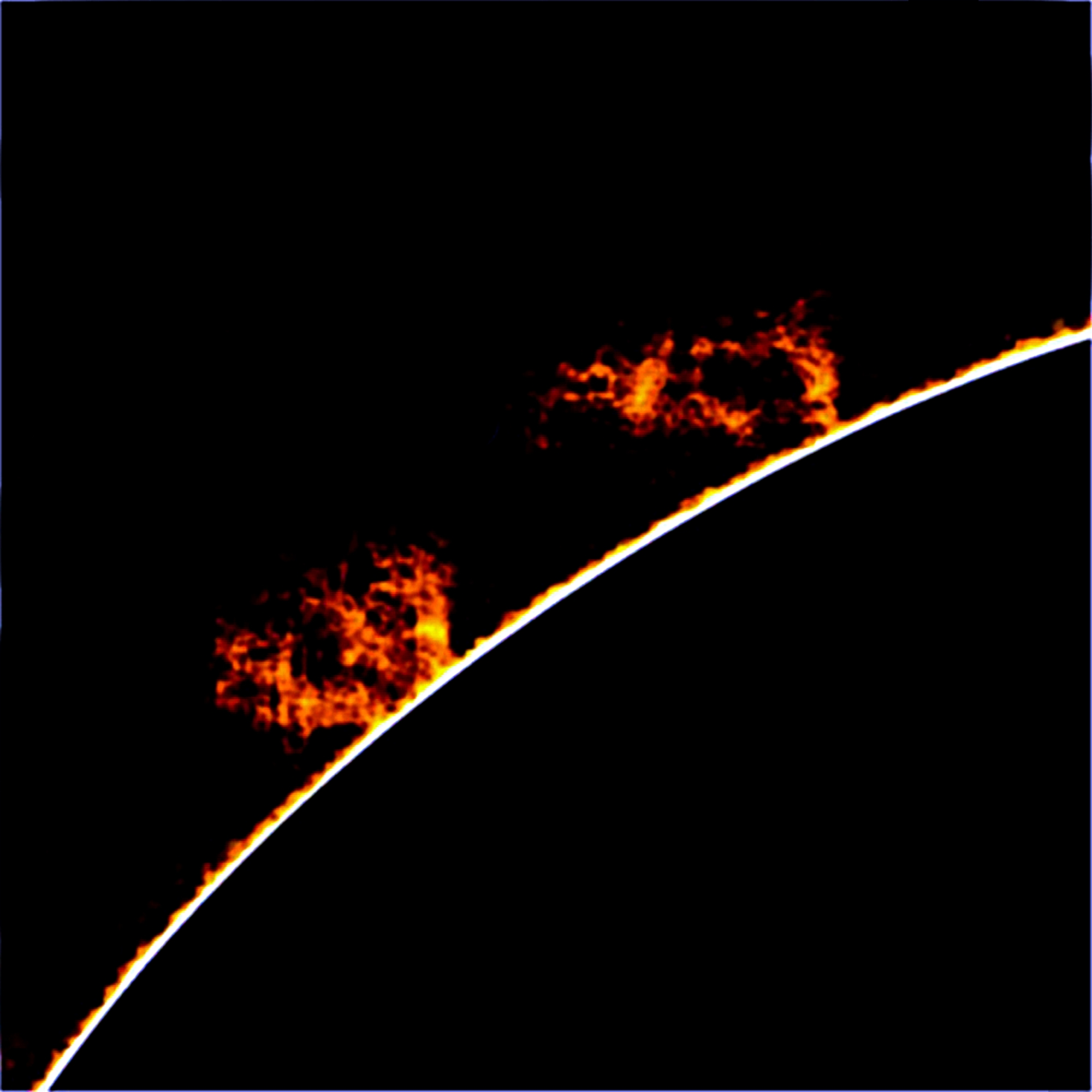 Solar Prominence. The solar disk was blocked in PS for a better visual effect.